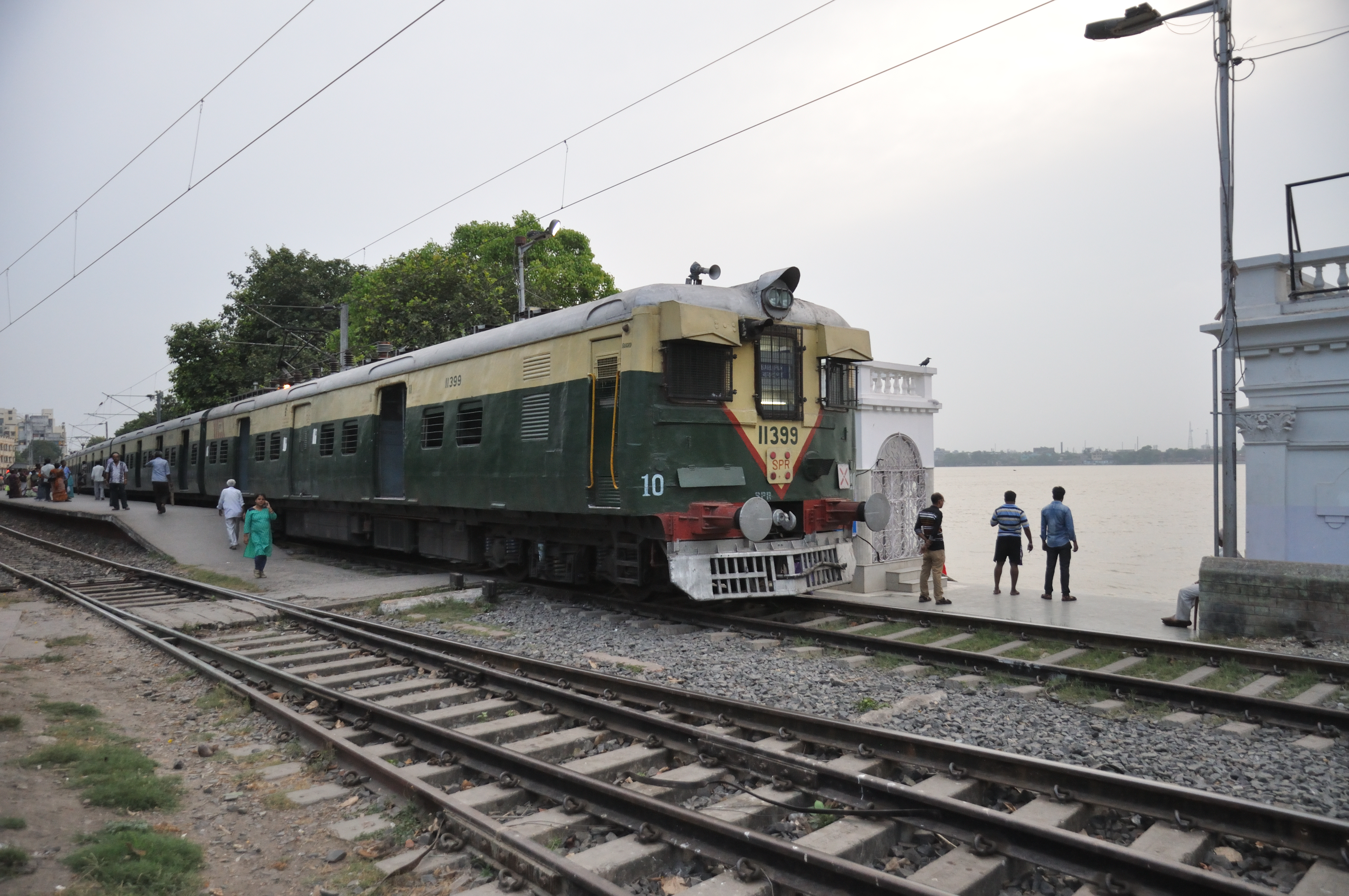 Photographed in Kolkata.